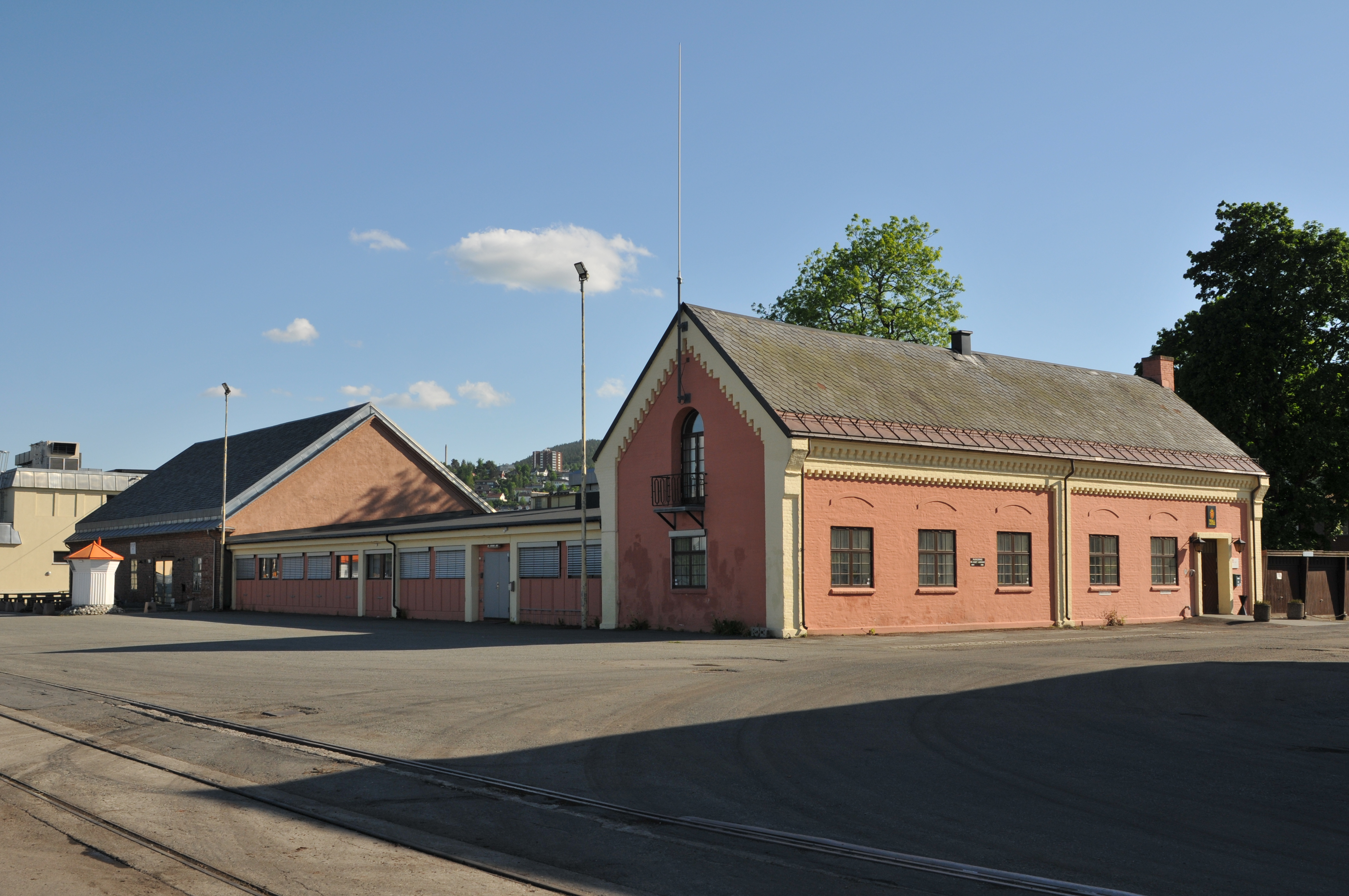 Drammen tollsted - custom house - expedition building and warehouse